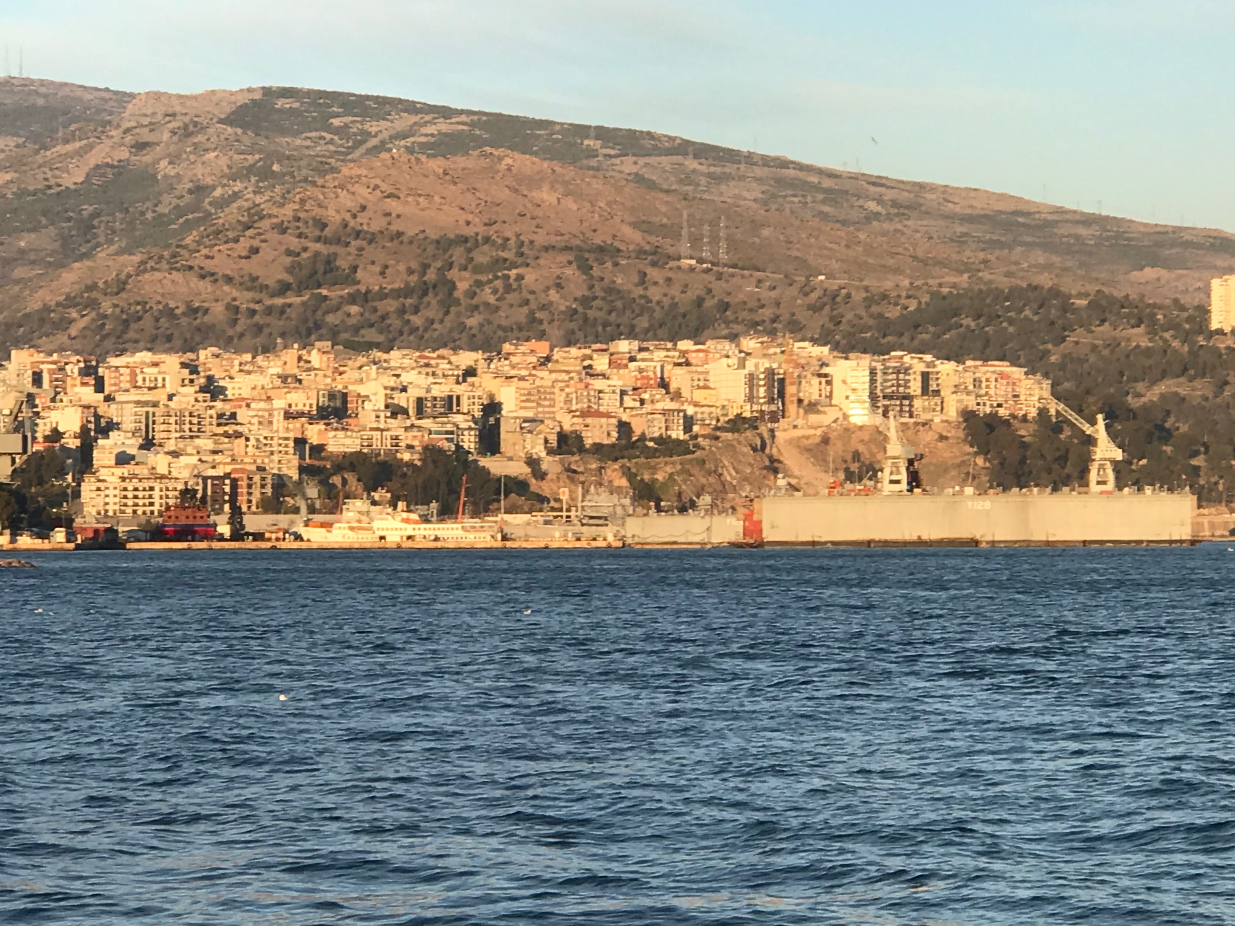 Alaybey Naval Shipyard in İzmir, Turkey.